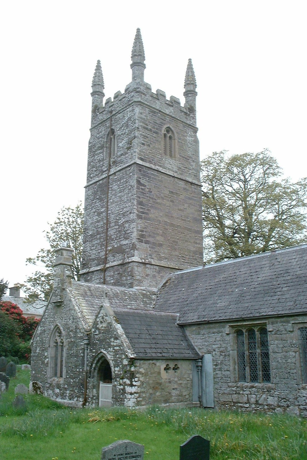 West tower of the parish church of St Mary the Virgin, Kelly, Devon, seen from the east